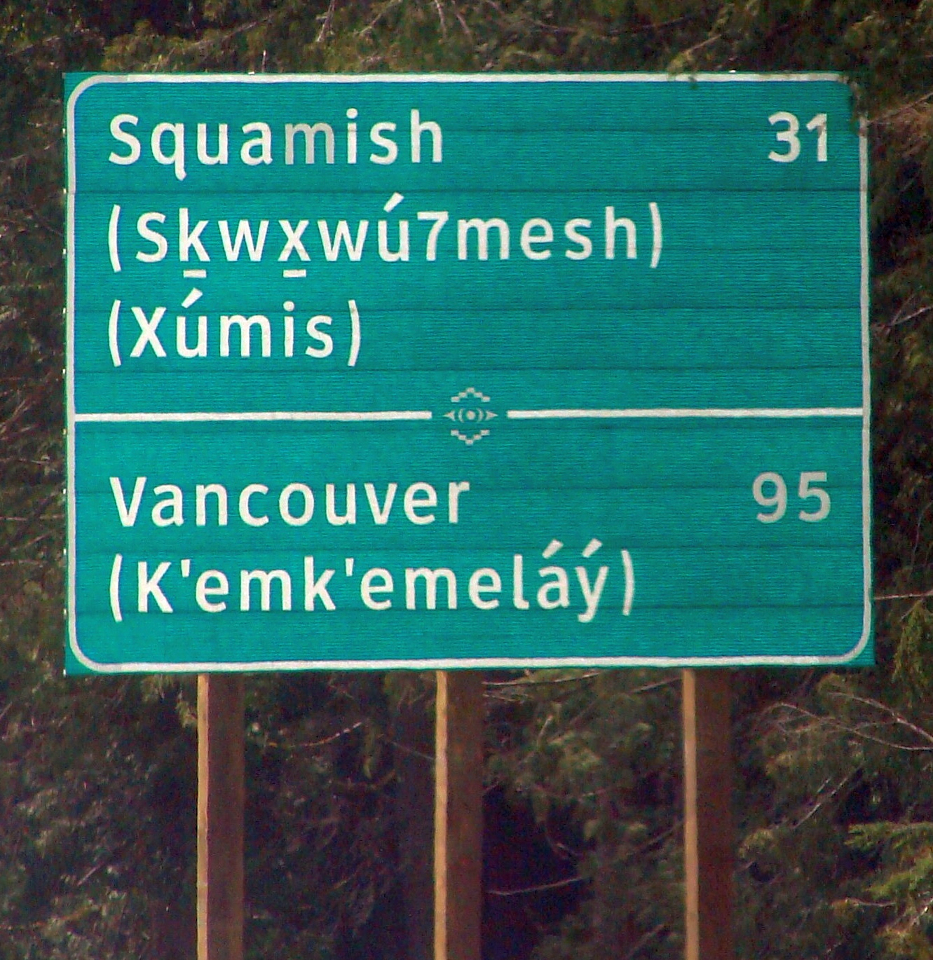 Photo of bilingual road sign in English and in Squamish, taken in British Columbia, Canada, showing the digit 7 as replacement for the similar letter ɂ (glottal stop)